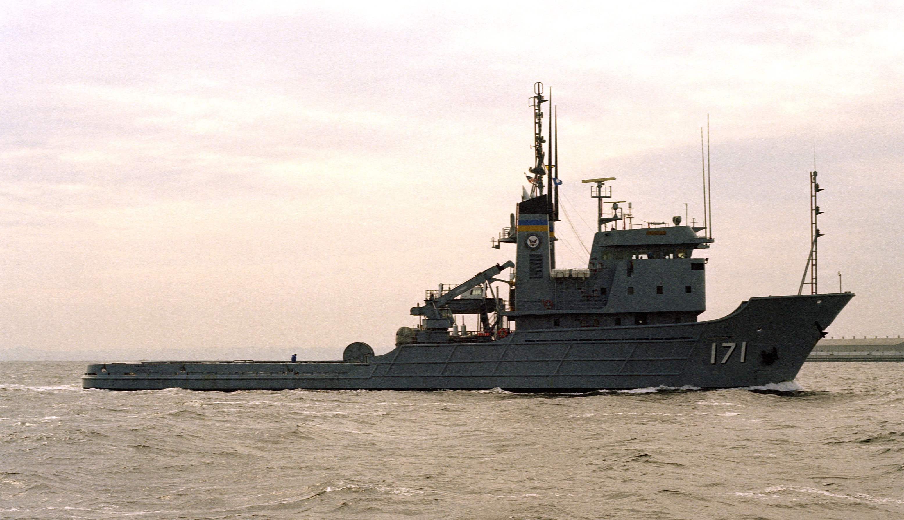 A starboard beam view of the U.S. Military Sealift Command fleet tug USNS Sioux (T-ATF-171) entering port at Yokosuka Naval Base, Japan.